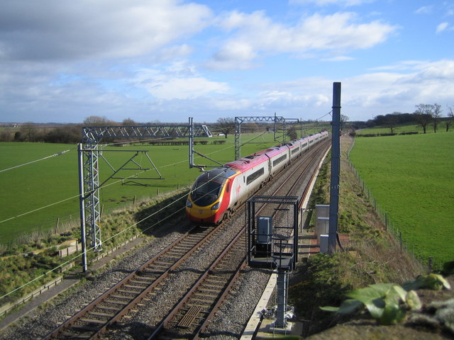 London to Rugby railway line